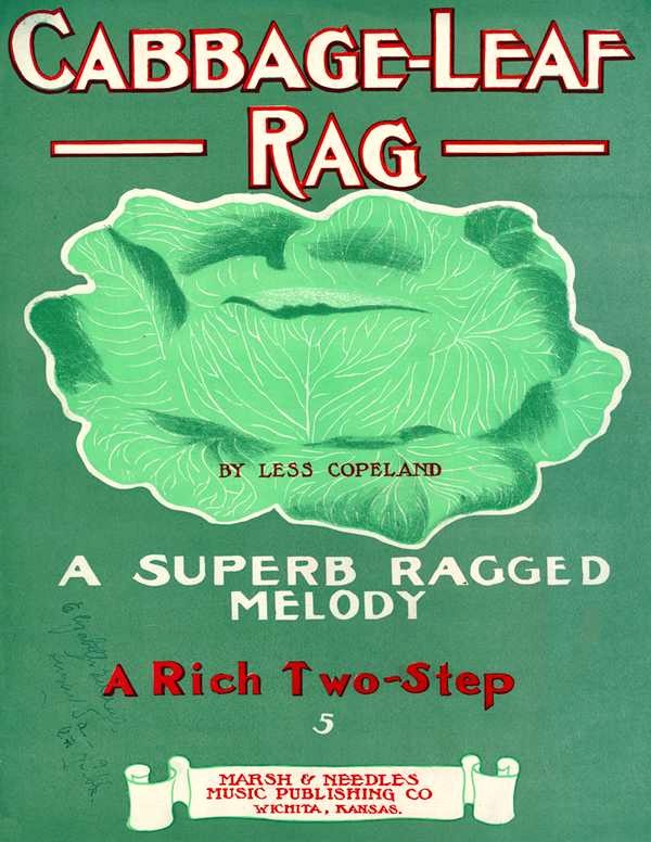 Cabbage Leaf Rag sheet music cover, 1909